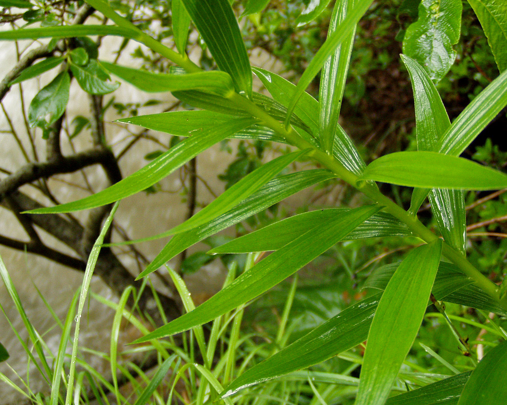 Please report references to kulacgmx.at.